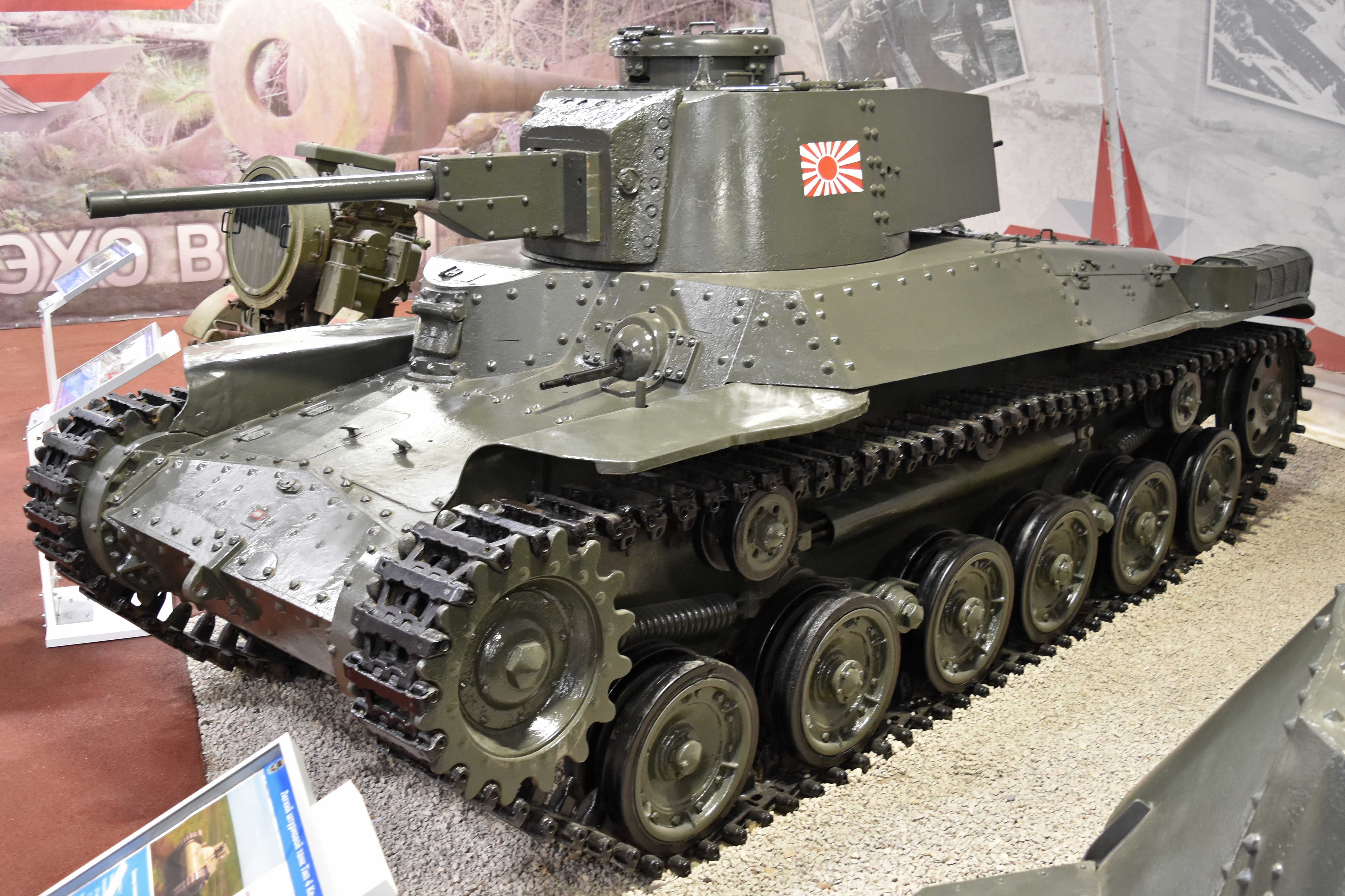 Japanese WW2 era Medium Tank Manufacturer:- Mitsubishi Built:- 1942 to 1943 Total Production:- 930 Main Armament:- 47mm Type 1 Tank gun The ShinHoTo Chi-Ha was probably the best tank produced by Japan up to 1945. It was an upgraded Chi-Ha with an enlarged three-man turret (ShinHoTo actually translates as ‘new turret’) and high-velocity 47mm gun. It first saw action at the 1942 Battle of Corregidor in the Philippines and served until the end of the war. This example was recovered from Mukden (now Shenyang) in 1945 and is now on display in Hall 12 of the Patriot Museum Complex. Park Patriot, Kubinka, Moscow Oblast, Russia. 25th August 2017